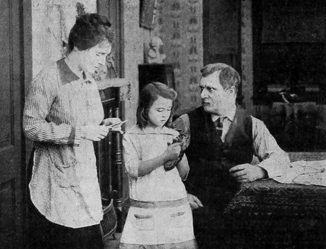 Scene from Acquitted with Mary Alden, Carmen De Rue, and Wilfred Lucas